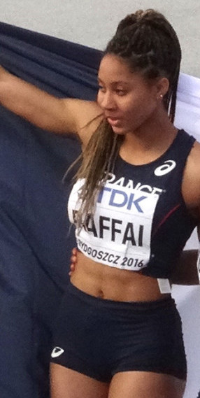 2016 IAAF World U20 Championships in Bydgoszcz, 4x100m relay women final